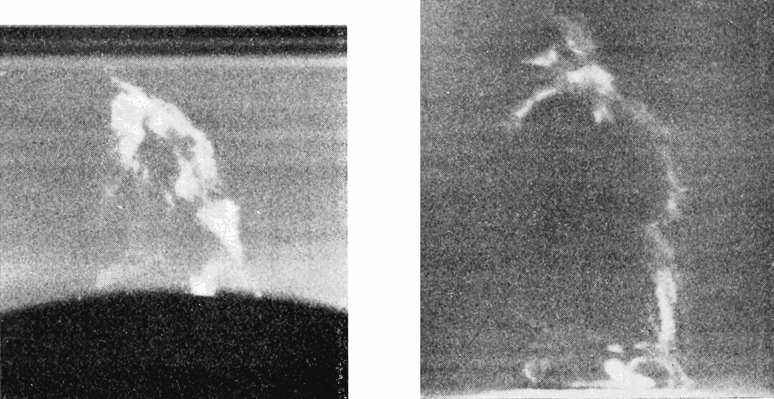 Solar prominences of March 25 1895 eclipse